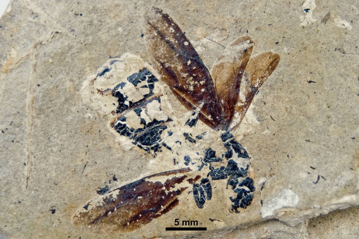 The Camponotus crozei holotype queen. Turolian, Miocene; Montagne d'Andance, Saint-Bauzile, Privas, France